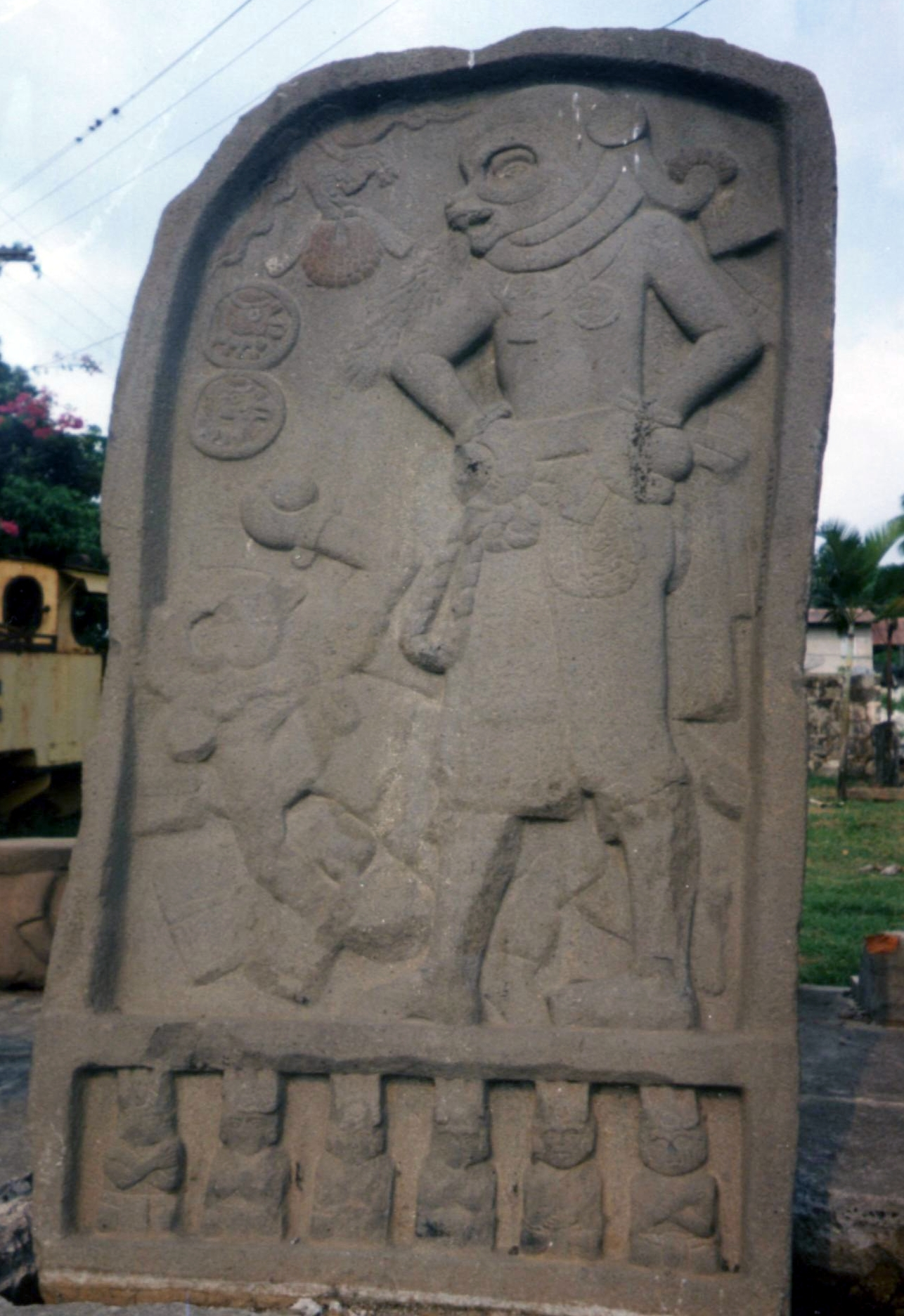 Ballgame stela at Finca El Baúl near Santa Lucía Cotzumalguapa, Escuintla, Guatemala. Classic Period. Photo taken around 2000.